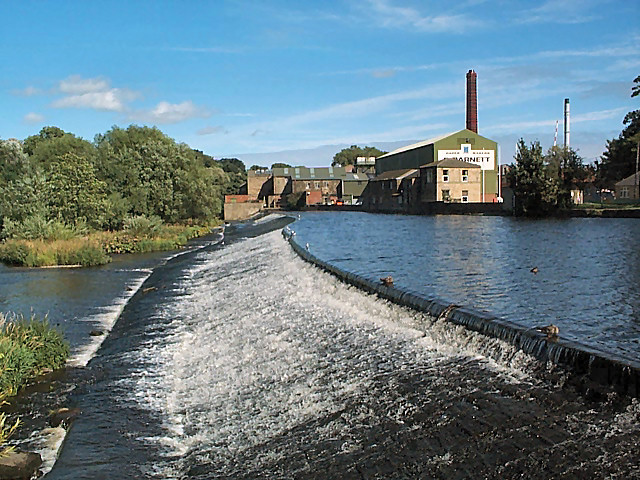 Weir on the River Wharfe at Otley. Eastward view across the long weir which cuts the Wharfe diagonally, across to Garnett's paper mill. A very similar view 31 years earlier can be seen here 373223.